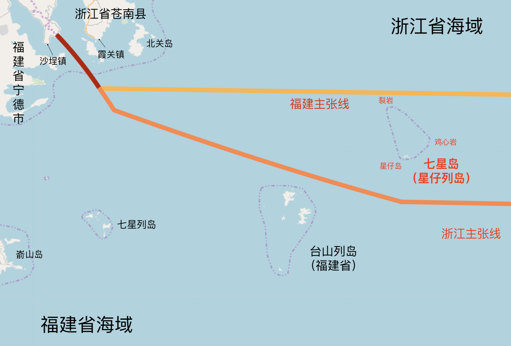 It is not precise but a sketch map for this dispute on the maritime border of Zhejiang and Fujian, both of which are provinces of China.